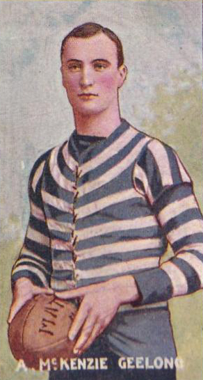 Cigarette card of Alec McKenzie from the Sniders & Abrahams 1906 series